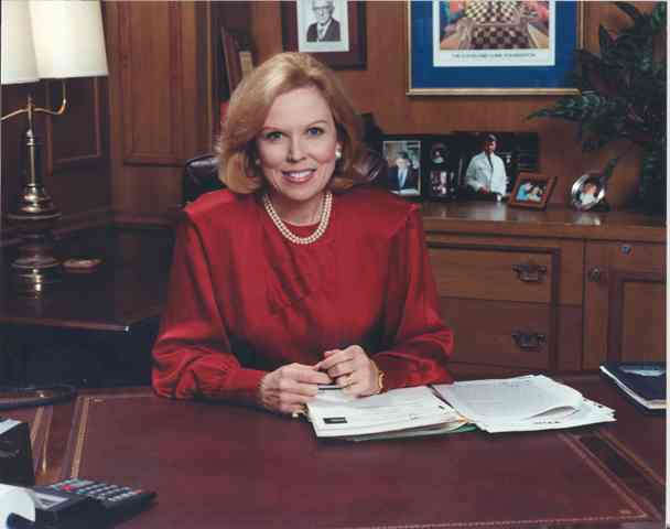 Dr. Healy served from 1991 until June 30, 1993. Healy was the first woman director at NIH.